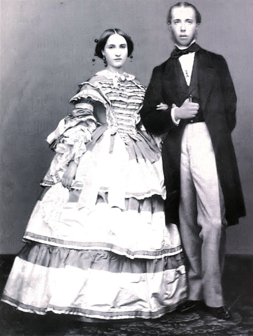 Photography of Maximilian and Charlotte - Mexico.